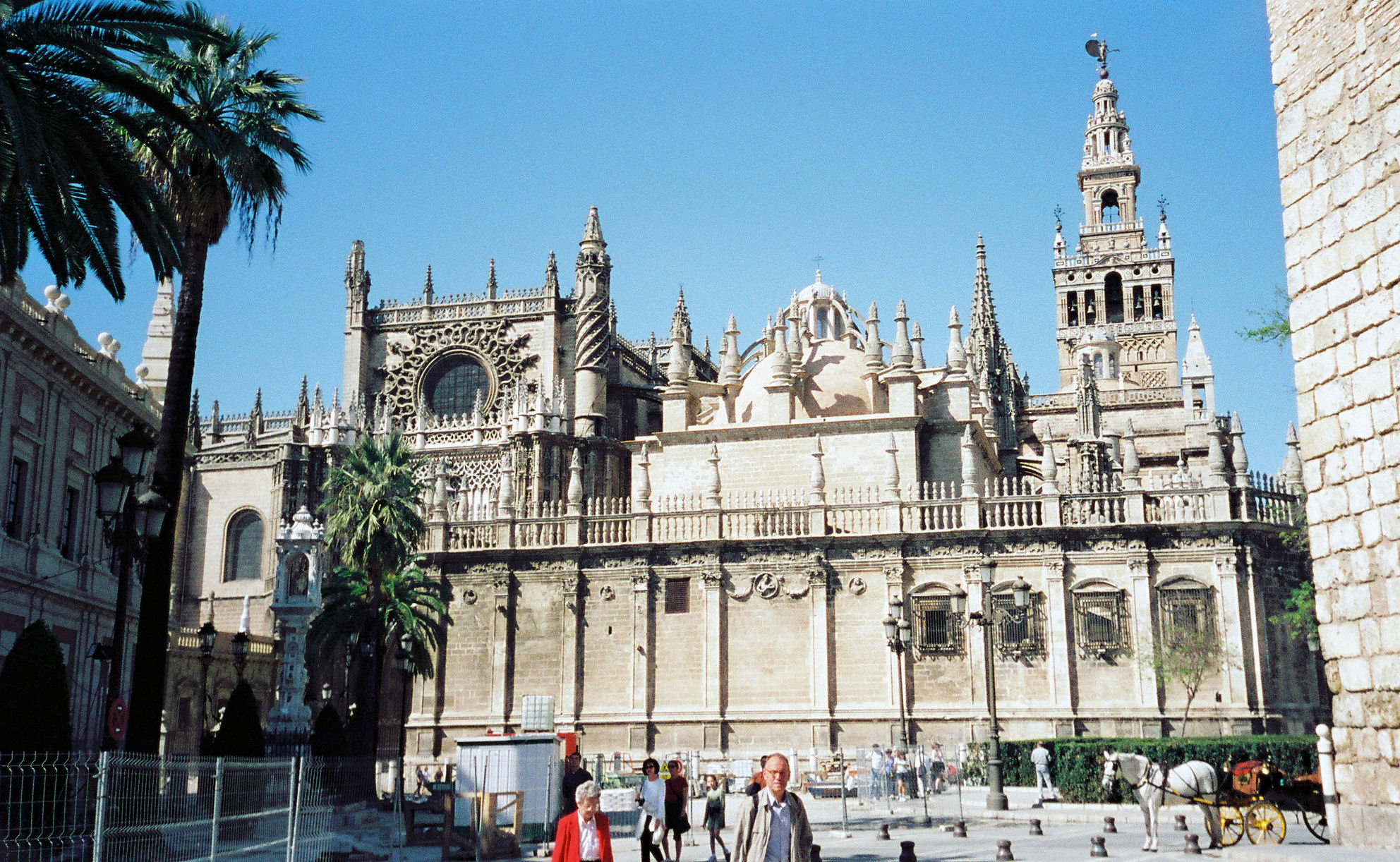 The Cathedral of Seville, also known as Catedral de Santa María de la Sede (Cathedral of Saint Mary of the See) is the Cathedral of the city of Seville in Andalucia. It is the largest Gothic cathedral and the fourth largest Christian church in the world.